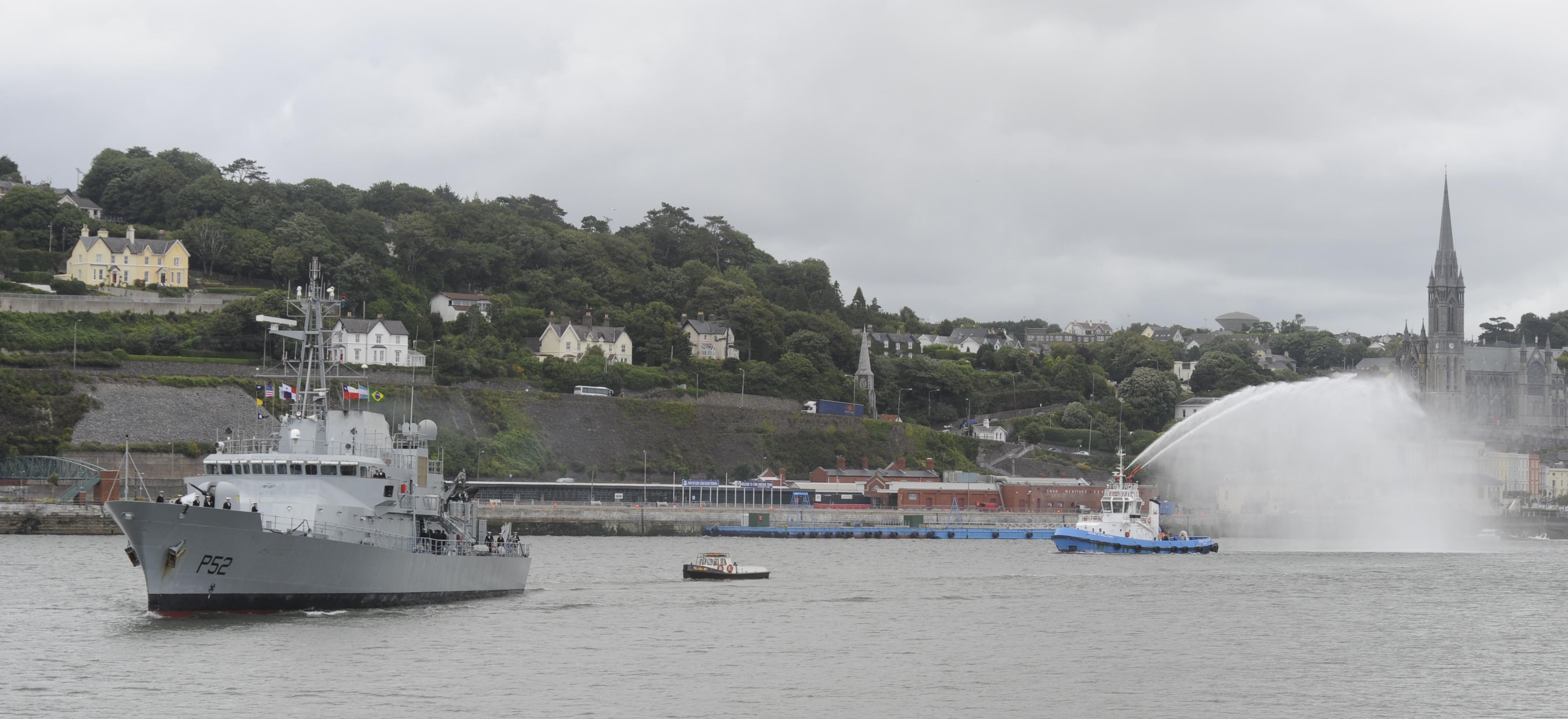 LE Niamh enters Naval base with Cobh in background